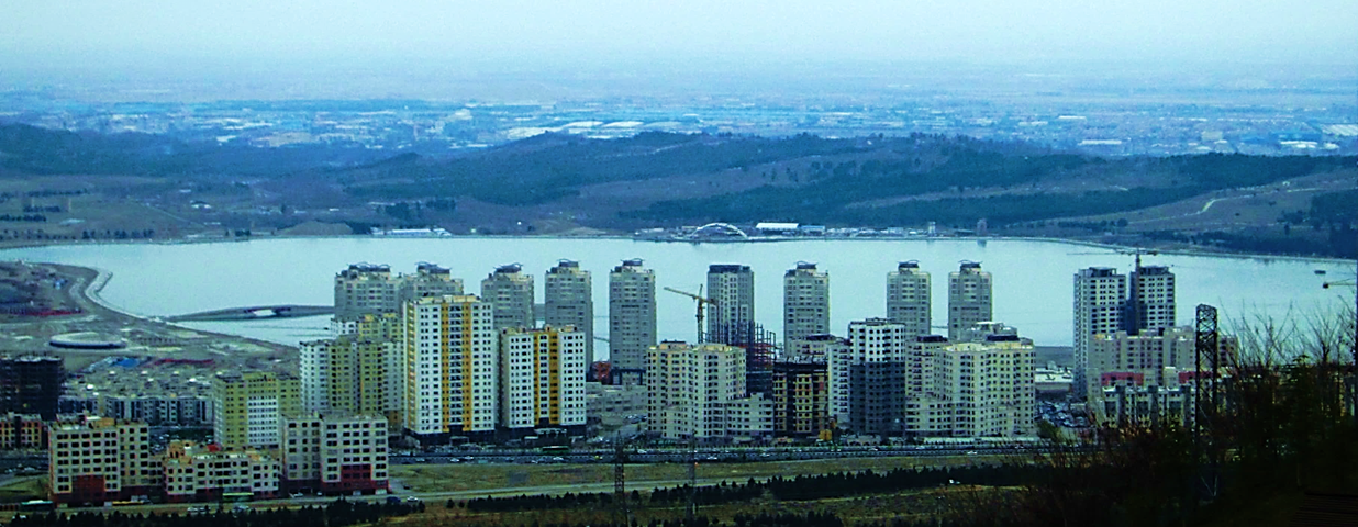 The view of the north of Chitgar lake in the west of Tehran, surrounded by buildings.